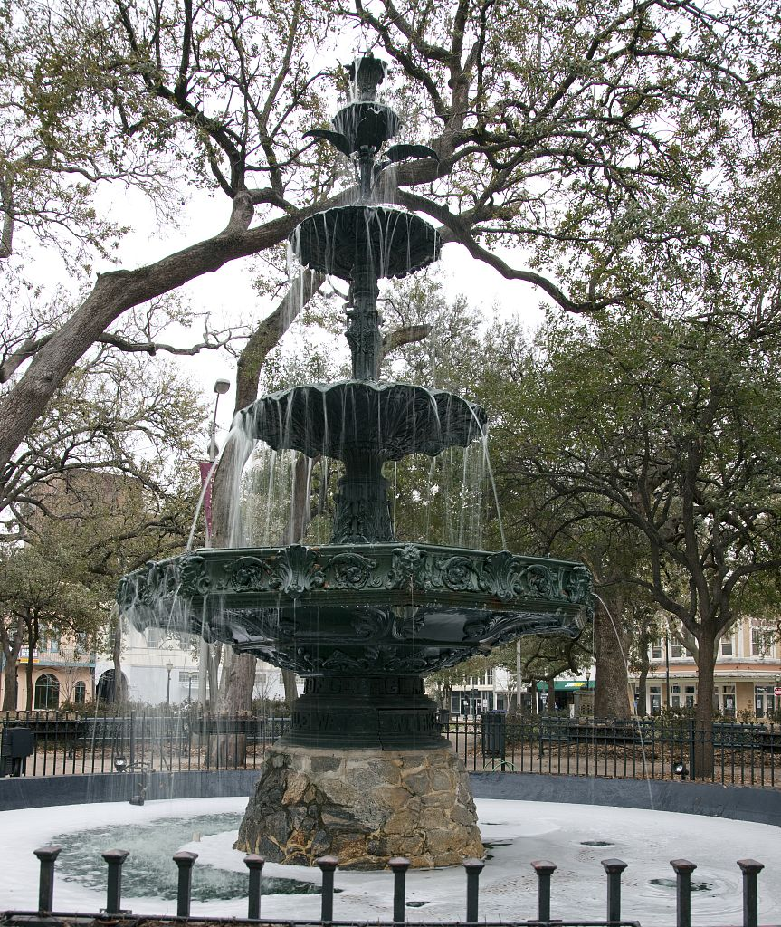 Cast iron fountain with acanthus leaf motif, Bienville Square, Mobile, Alabama.